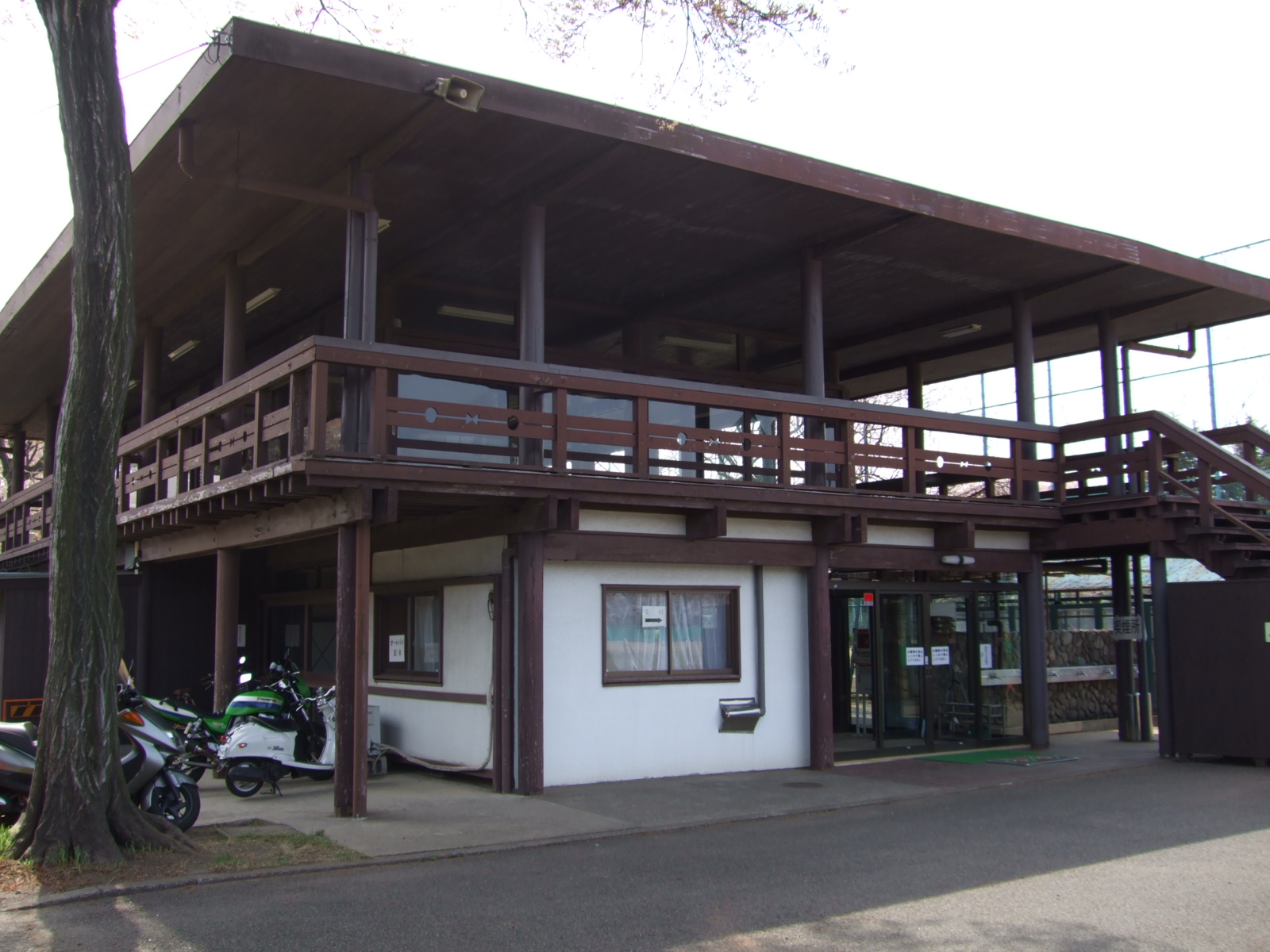 NHK Fujimigaoka Clubhouse, Suginami, Tokyo, Japan. Designed by the Japanese architect Kunio Maekawa.